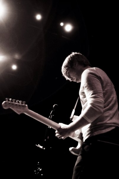 Josh Rosenthal on stage at the Rose Wagner Theater.